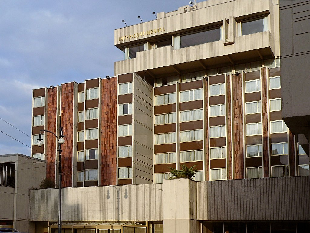 Hotel InterContinental at Curieových square in Old Town, Prague